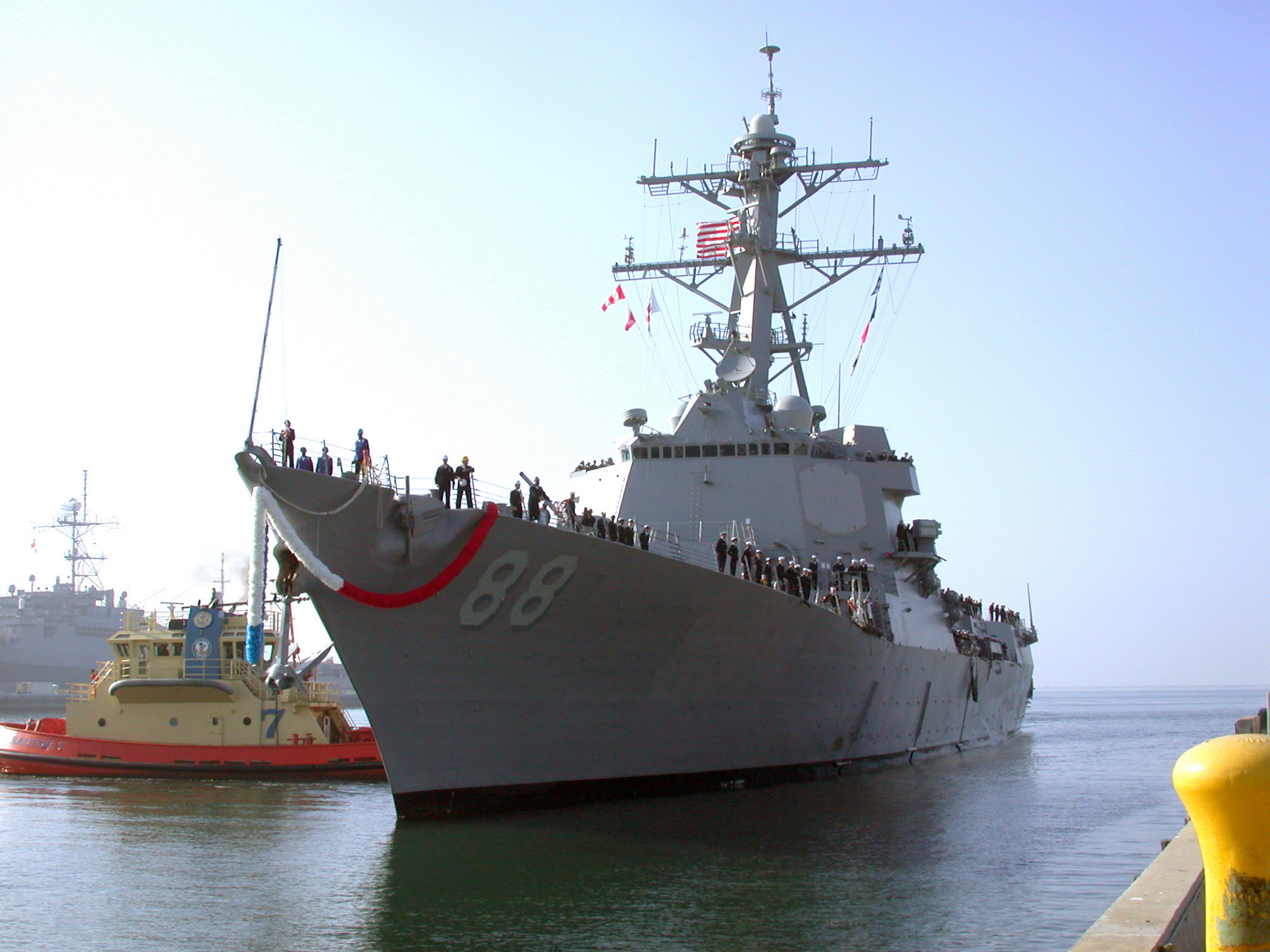 021211-N-7294H-001 Naval Station San Diego, Calif. (Dec. 11, 2002) -- USS Preble (DDG 88), the Navy's newest destroyer, arrives for the first time as its home port of San Diego. The arrival makes it the fourth Arleigh Burke destroyer to be stationed in San Diego since May of 2001. U.S. Navy photo by Journalist 2nd Class Jason Heavner. (RELEASED)